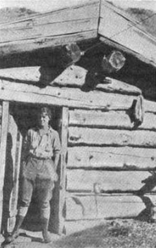 Lorraine Lindsley, the first woman observer on the Medicine Bow Range, in the Rocky Mountains, from a 1921 publication.